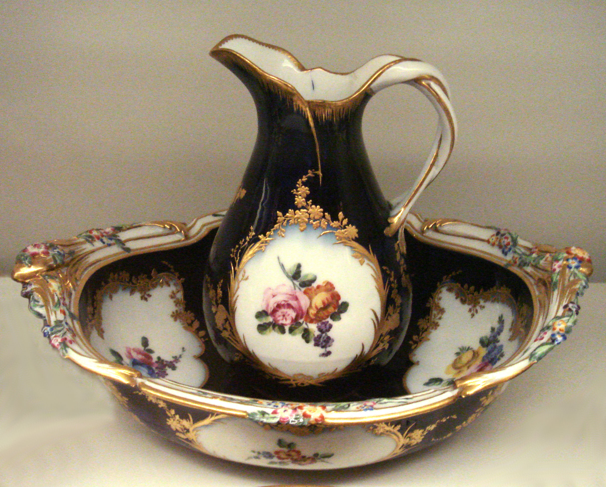 Manufacture de Vincennes: water jug and wash bowl, 1753, soft porcelain, Musée des Arts Décoratifs, Paris, France.